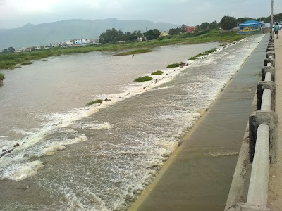 Palar river in vaniyambadi